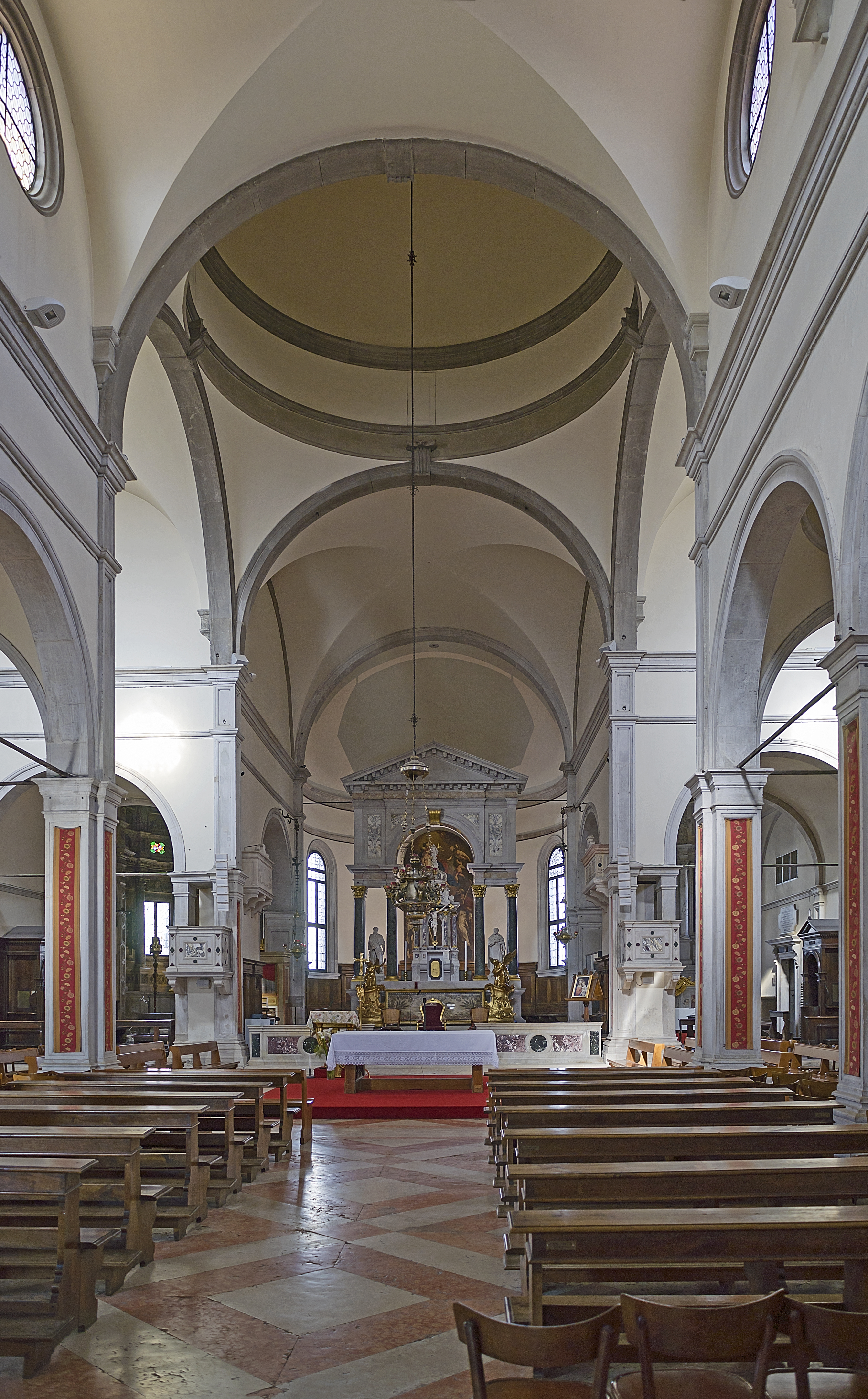 Church of Santa Maria Formosa, altar. Venice.